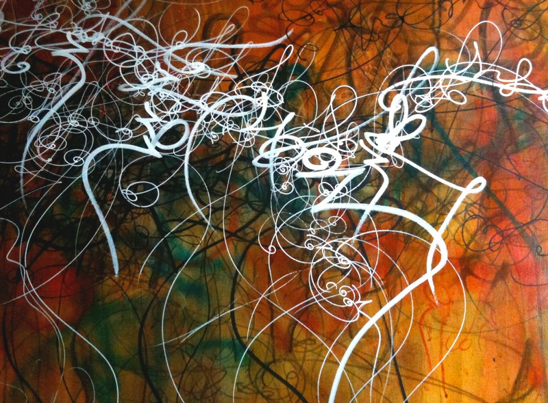 asemic writing, abstract calligraphy painting by Matox ( Nuno de Matos)